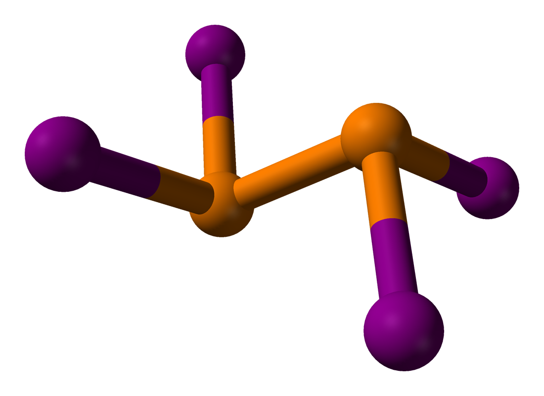 Ball-and-stick model of the diphosphorus tetraiodide molecule, P2I4, as found in the crystal at 120 K. X-ray diffraction data from Z. Zák and M. Cerník (February 1996). "Diphosphorus Tetraiodide at 120K". Acta. Cryst. C52 (2): 290-291.